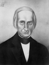 Portrait of Senator Benjamin Ruggles of Ohio